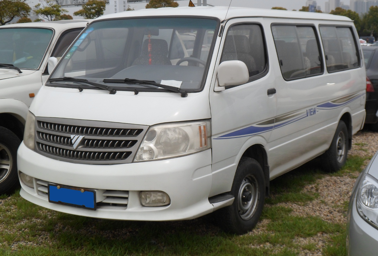 Foton View photographed in Anting, Shanghai municipality, China.